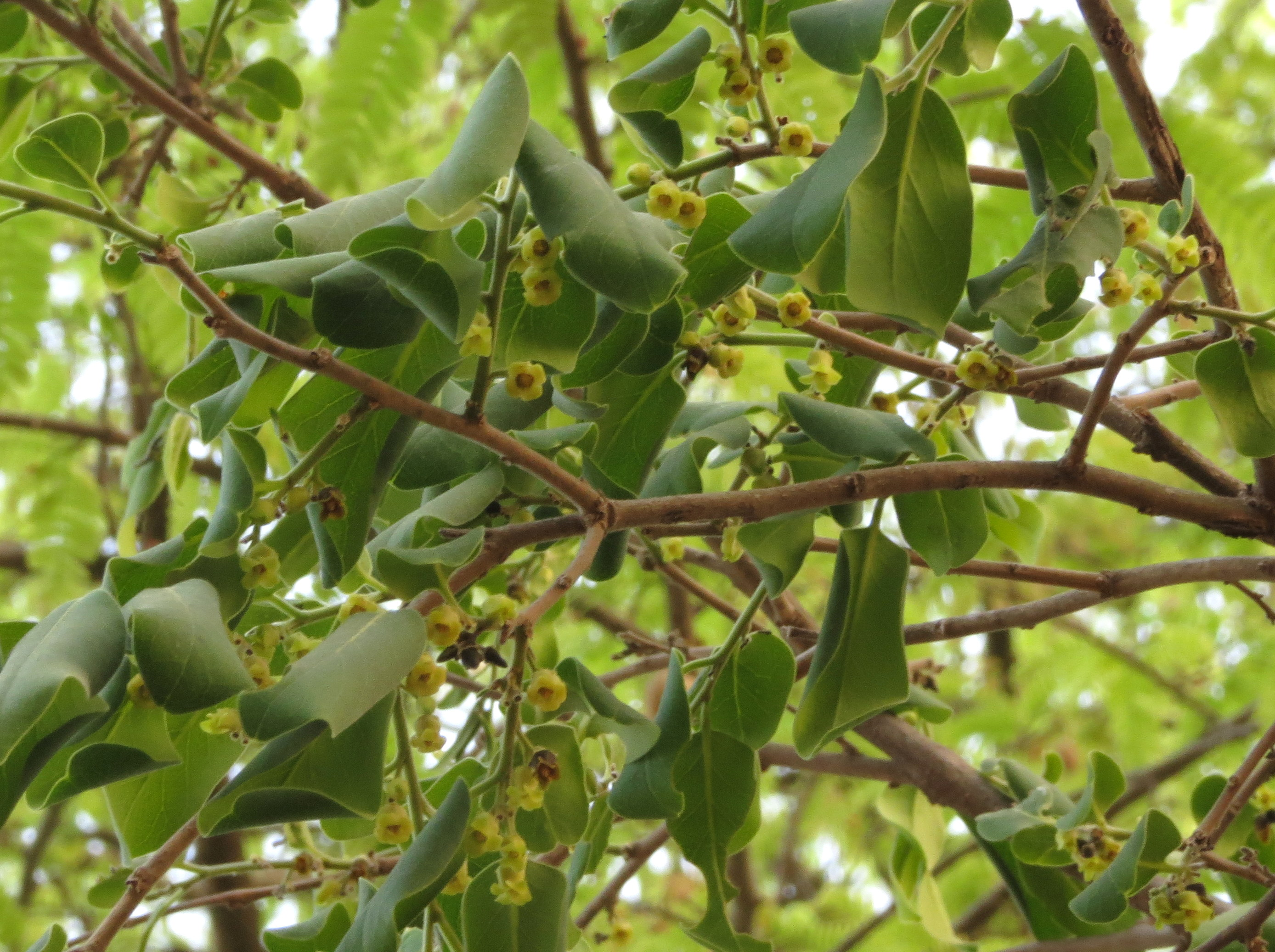 Diospyros chloroxylon in Gulkamale, Banerghatta forest range, Bangalore